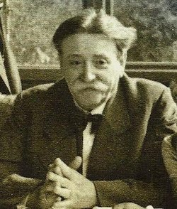 Eduard Bloch